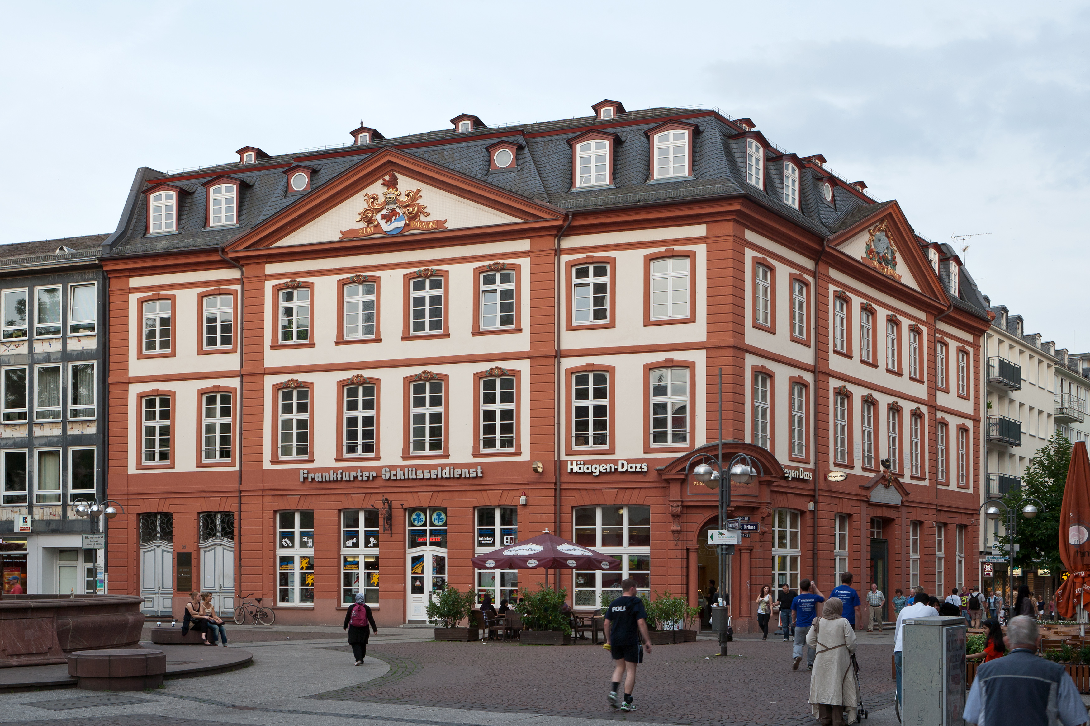 Frankfurt on the Main: Liebfrauenberg 39 / Neue Kräme (New Market) 33 as seen from the northwest